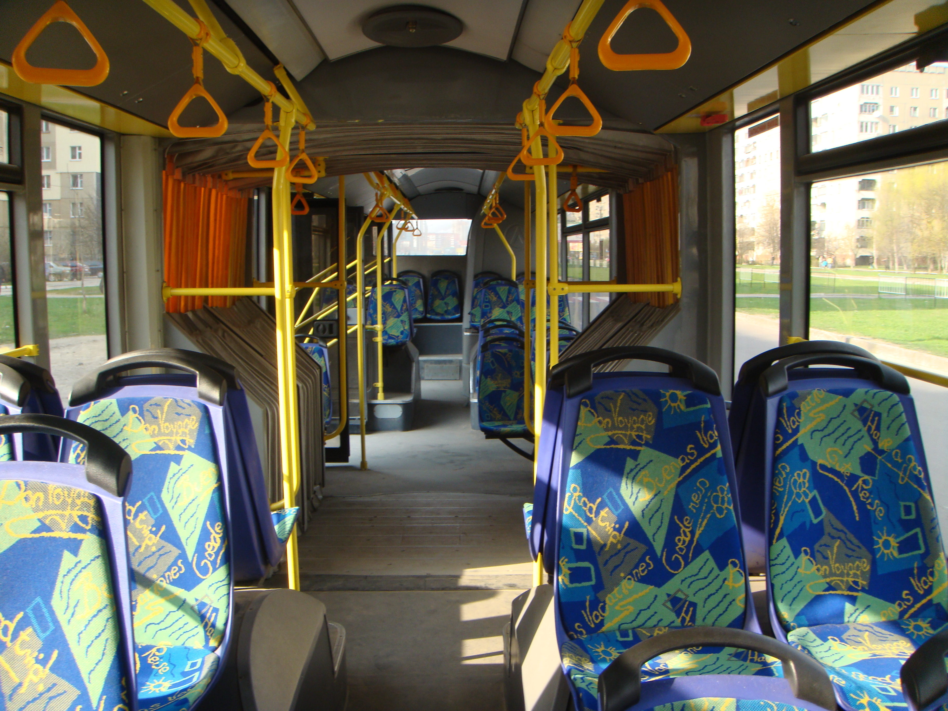 LAZ A292 bus interior in Lviv, Ukraine.